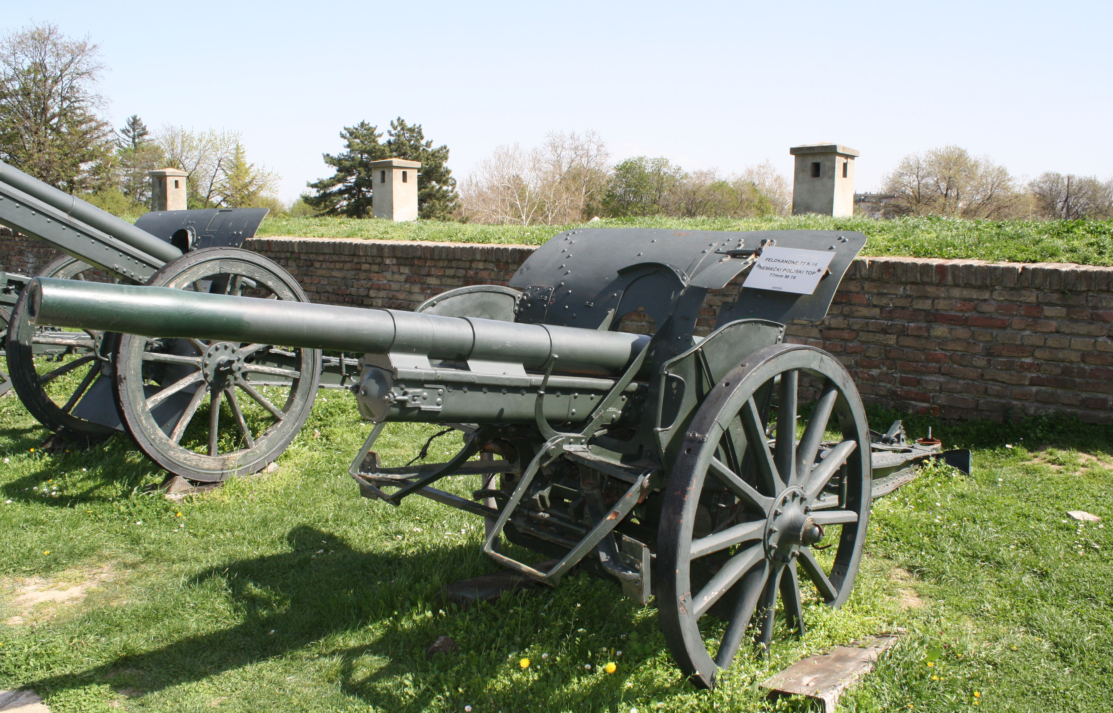 A gun labeled as German WWI 7,7cm Feldkanone 16, part of Belgrade Military Museum outer exhibition at Kalemegdan fortress. In fact it seems to be a Belgian modification of it called Canon de 75 mle GP III.